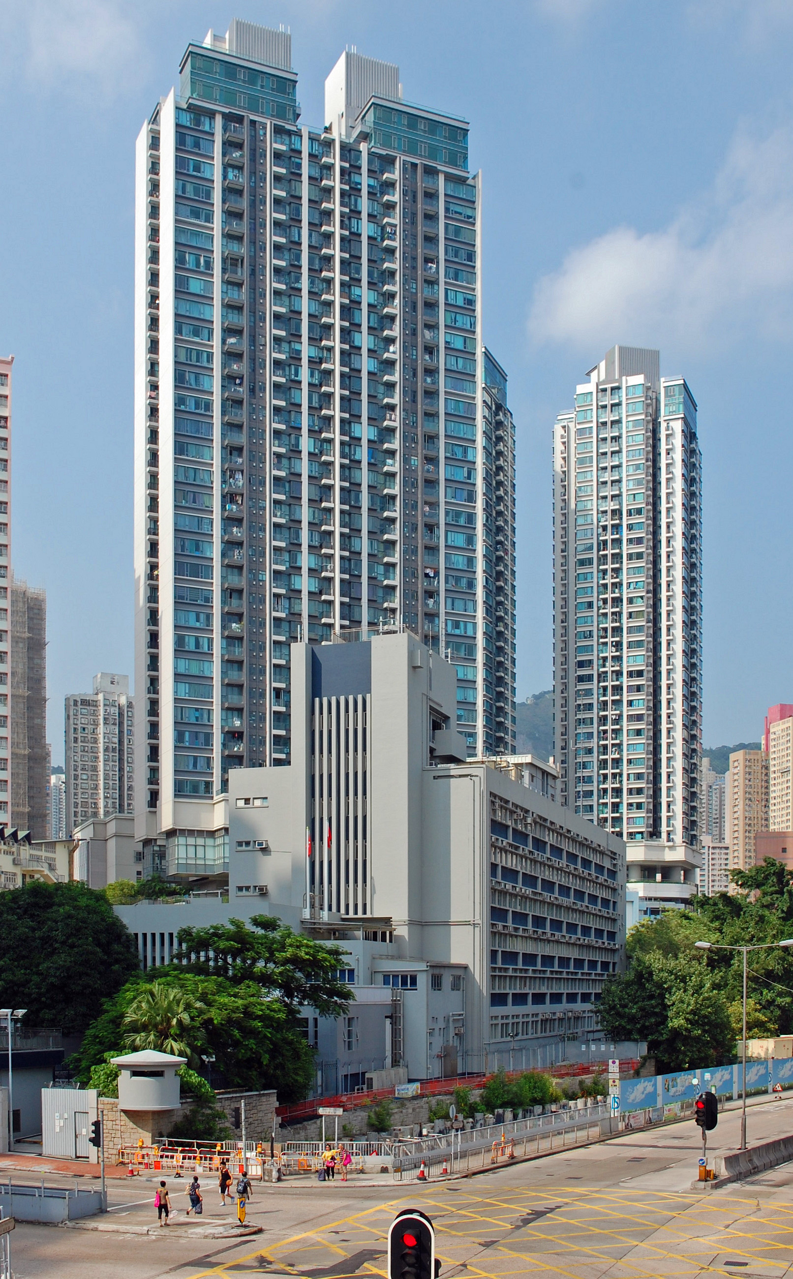 Wong Tai Sin Division Police Station, with Lions Rise residential buildings in background.中文（香港）: 黃大仙區總部及分區警署